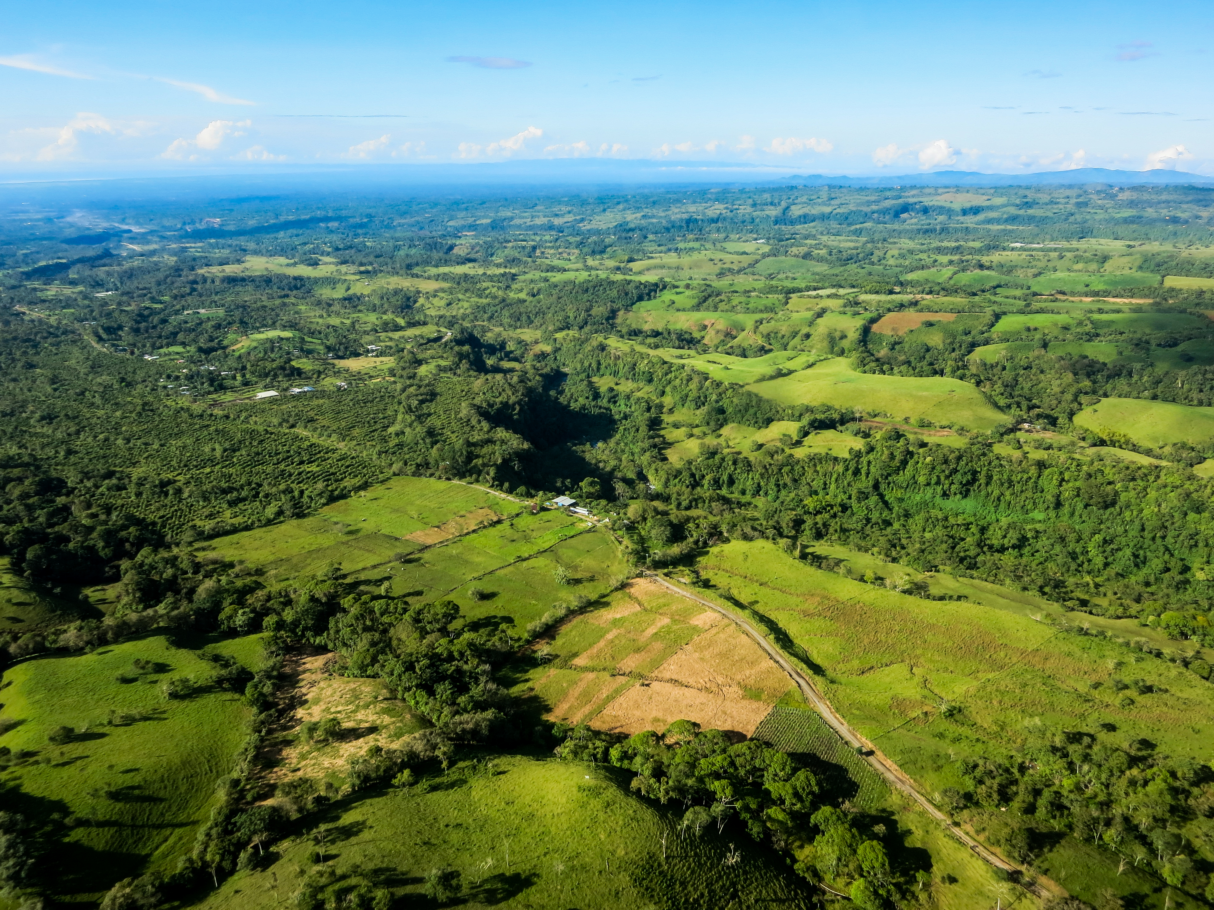 Farmland in Panama